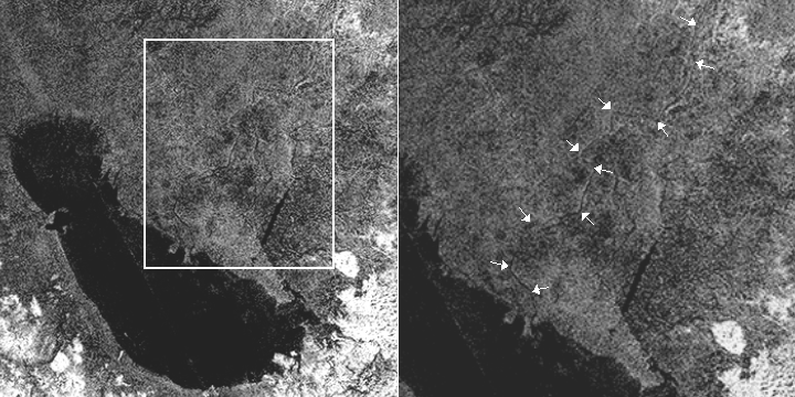 Radar image of the Ontario Lacus area (source: file PIA1616; NASA / JPL-Caltech / Agenzia Spaziale Italiana / Proxemy Research). A drainage pattern compatible with meandering fluvial channels is highlighted.